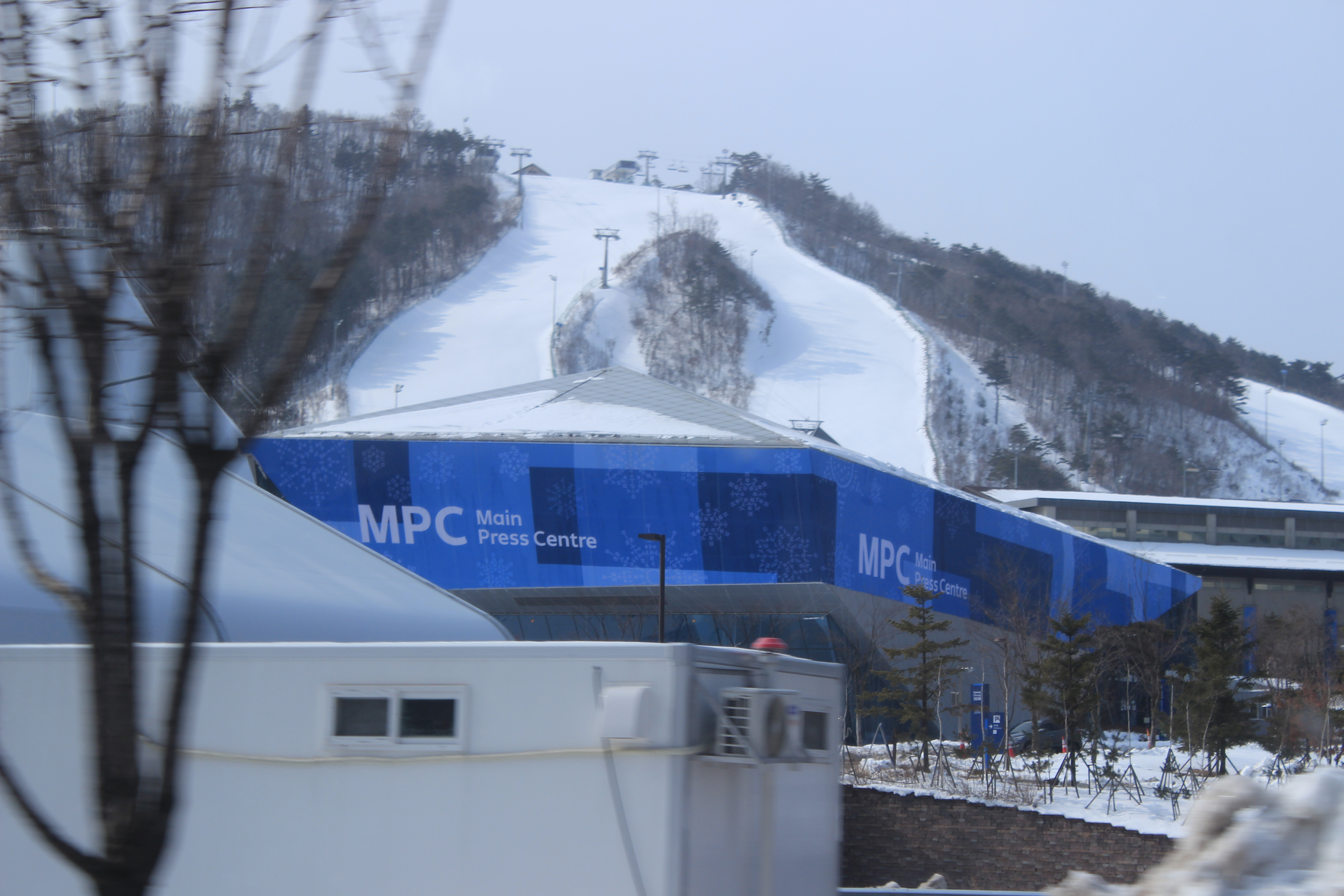 2018 Olympics MPC